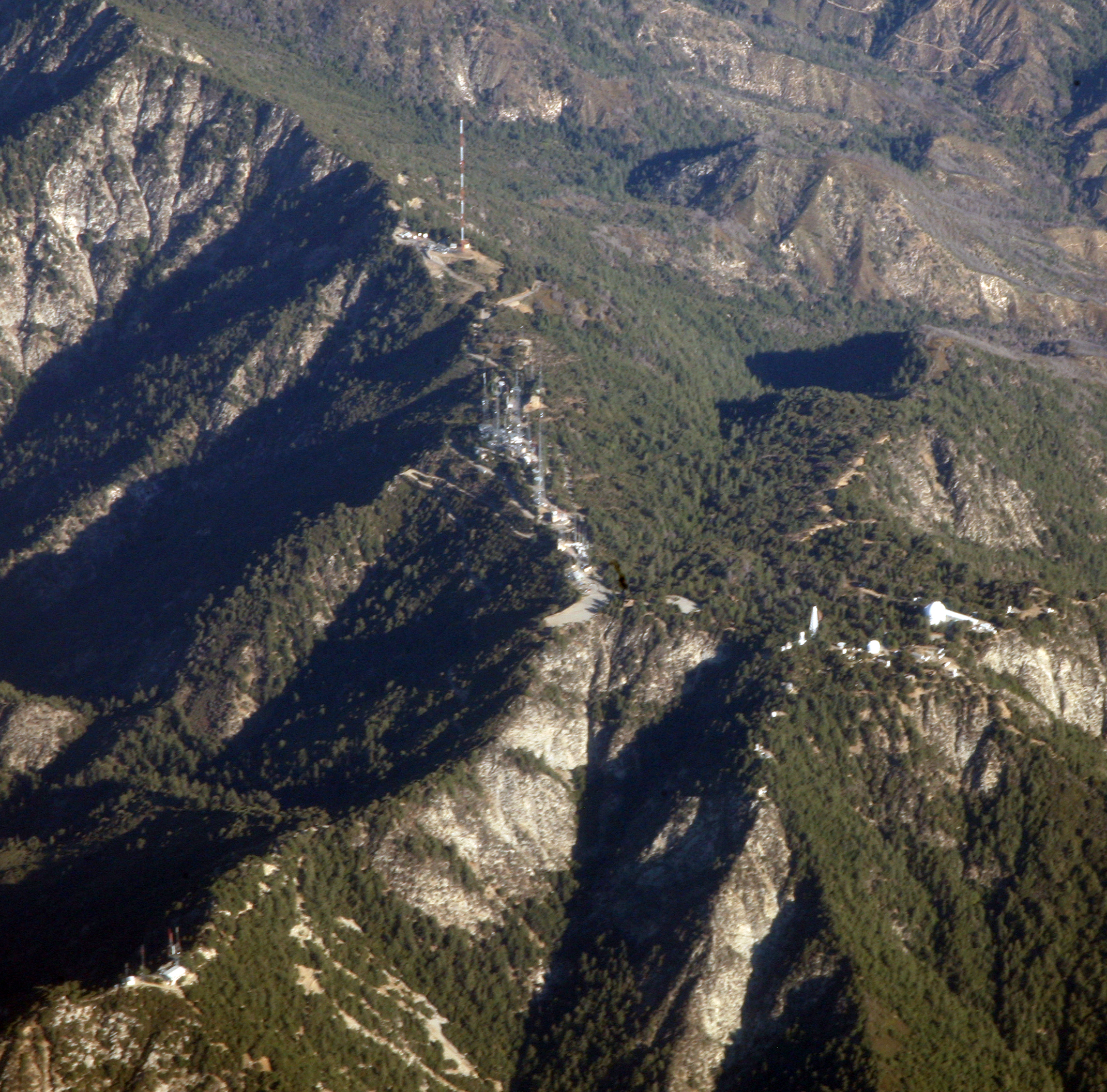 Mount Wilson, which overlooks Los Angeles and supplies most of its TV and FM radio signals. It is also home to Wilson Observatory.